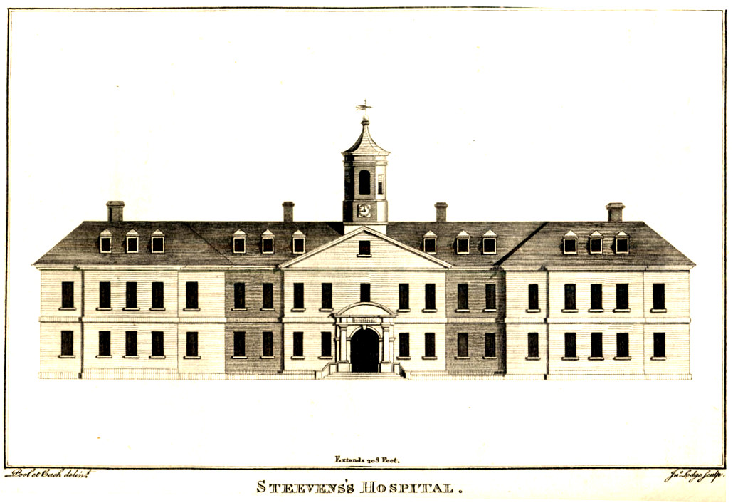 Engraving: Robert Pool & John Cash. Views of the most remarkable public buildings, monuments and other edifices in the city of Dublin; 1780; facing page 72 Dr Steevens' HospitalIn its time (early eighteenth century) the largest medical hospital, it was built thanks to the philanthropy of Madam Grizel and her brother Richard Steevens (1653-1710), a theologian and a doctor, president of the Royal College of Physicians at the time he died. This man had accumulated huge wealth during his lifetime, and he said in his will that he wanted all this fortune to go to his twin sister, Madam Grizel, but after her death, the wealth had to be used to build a hospital. Directly Madam Gizel decided to begin building the hospital during her lifetime, keeping for herself only £100 a year. The architect in charge was Thomas Burgh and he designed the plans early in 1713, but it wasn’t until 1721 that the work began. Finally in 1733 the hospital was completed and it opened with eighty-seven beds and with the new house of Madam Grizel, where she lived until her death in 1747. One of the important points of the history of this hospital is the important Book Collection bequeathed by Edward Worth, a physician and also one of the original Governors of the hospital, which we can still see today there. The building is now the headquarters of the Health Service Executive.